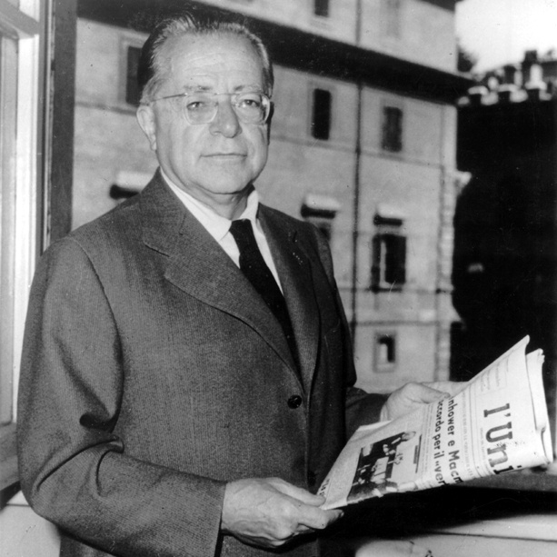 Palmiro Togliatti